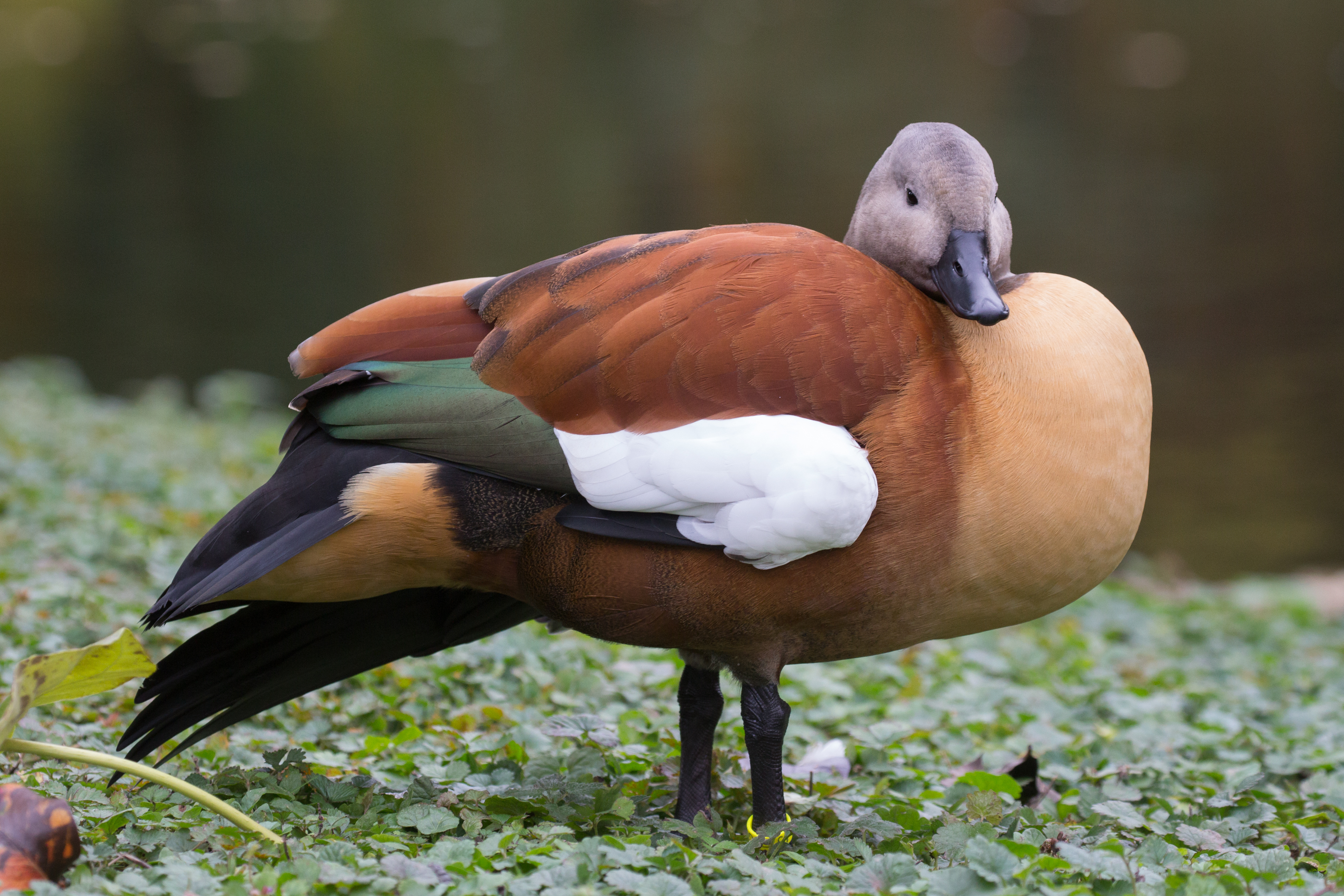 South african shelduck (Tadorna cana) in Höhenpark Killesberg, Stuttgart, Germany.